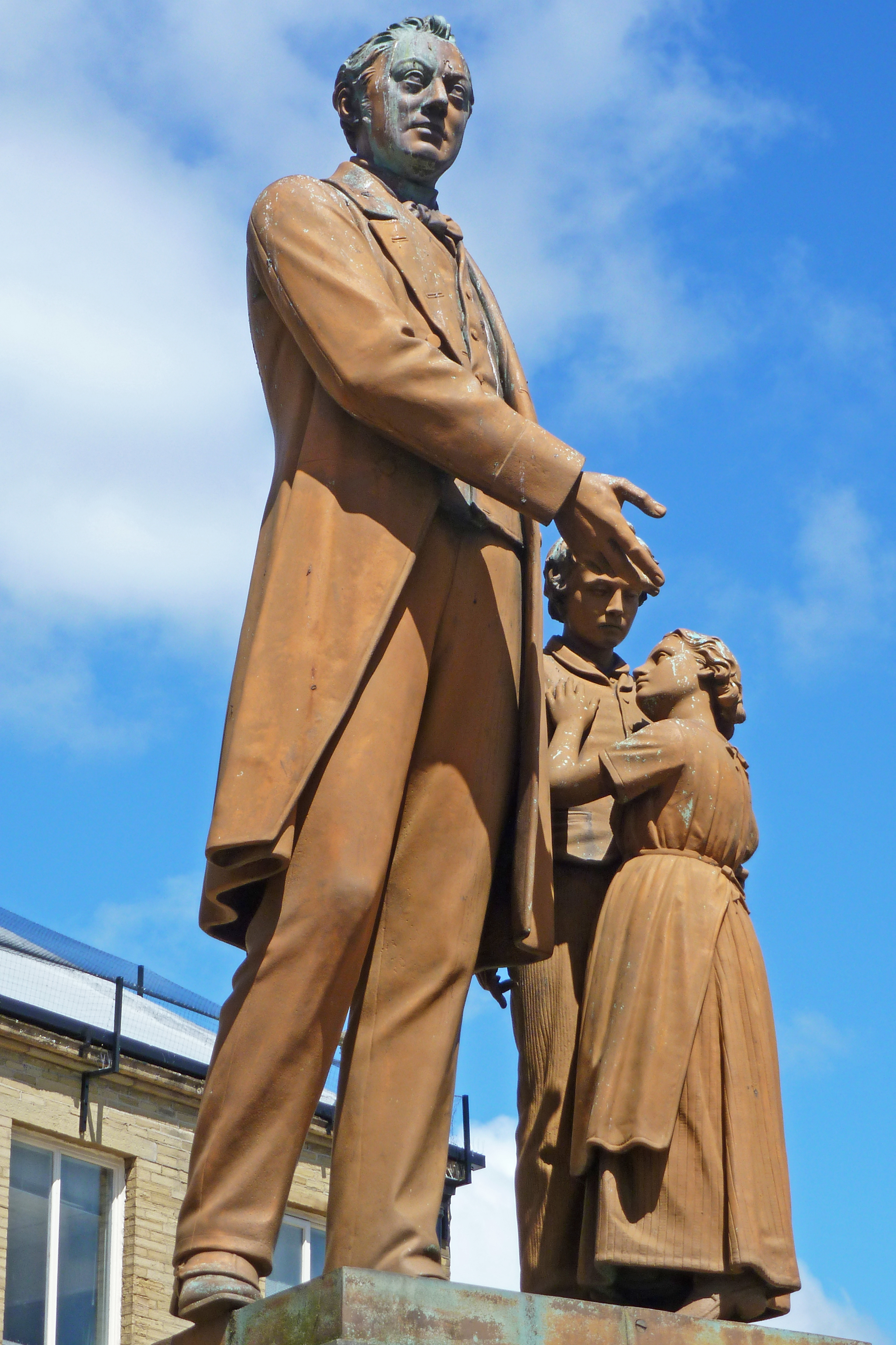 Northgate, Bradford